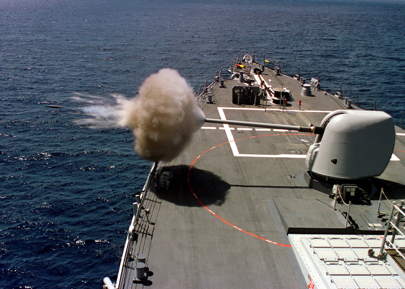 April 16, 1997, on board USS Benfold (DDG-65) The Arleigh Burke-class destroyer Benfold fires its 5″/54 MK 45 gun during routine training operations off the coast of Southern California. The MK 45 provides surface combatants with accurate naval gunfire against fast, highly maneuverable surface targets, air threats and shore targets.